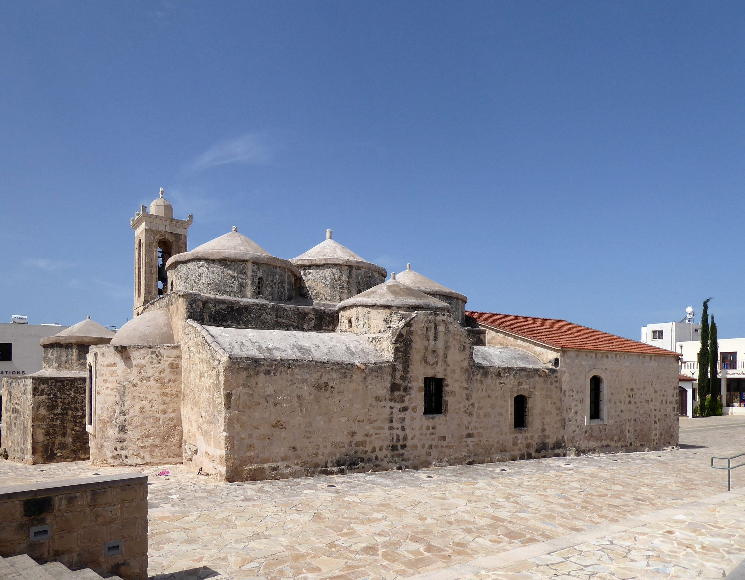 Yeroskipou - Agia Paraskevi